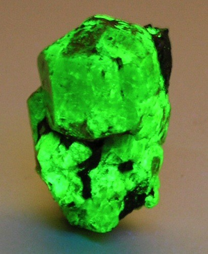 Willemite Locality: Franklin Mine, Franklin, Franklin Mining District, Sussex County, New Jersey, USA (Locality at ) Size: 2.9 x 1.8 x 1.4 cm. An old-time classic from the Franklin Mine of a very sharp, lustrous, orangish-brown willemite rhombohedron on willemite with a bit of franklinite and zincite. Accompanied by an expertly handwritten, faded label from an older collection. The collection this came out of was a museum stash dating to prior to World War I. Outstanding green fluorescence.